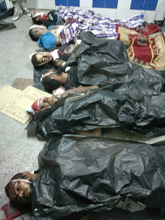 dead bodies in RABIA Massacre